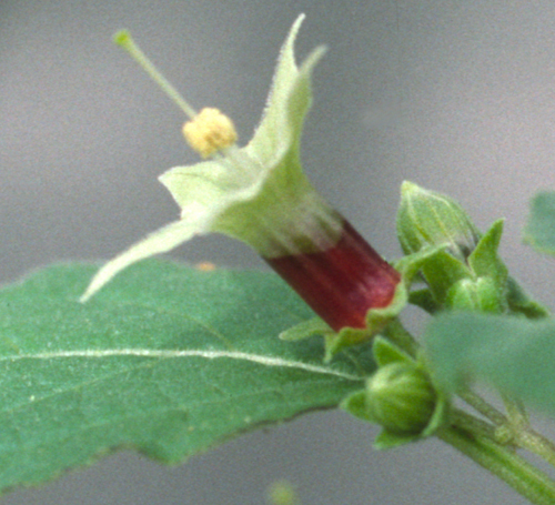 Flower of Jaltomata umbellata. Red nectar shows through the corolla tube. Collection Mione 432.